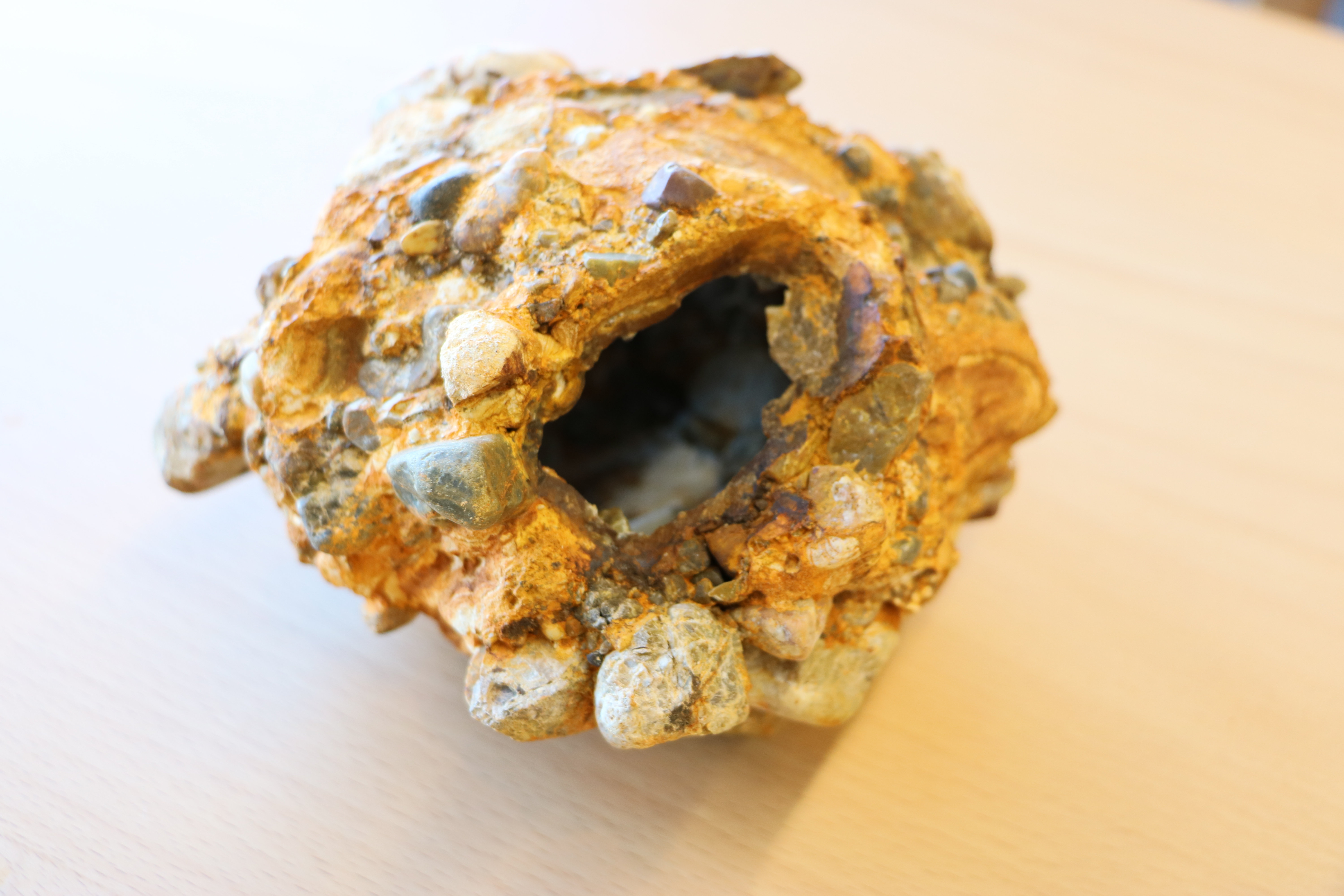 Mino no Tsuboishi. Toki City Hall specimen stone